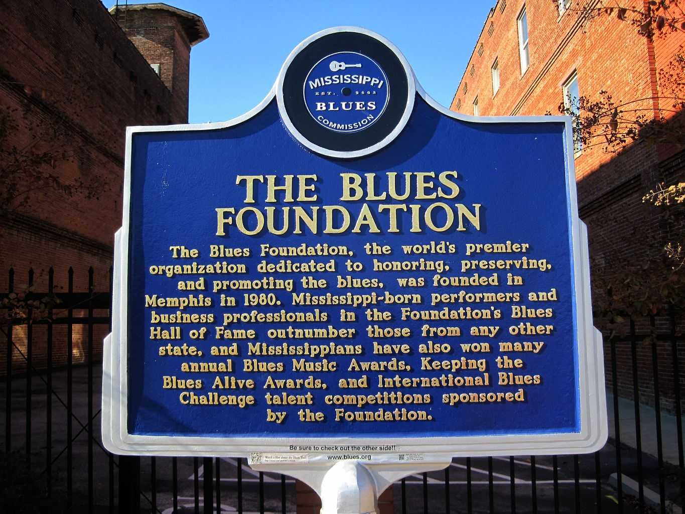 Memphis Music Foundation in Memphis, Tennessee.